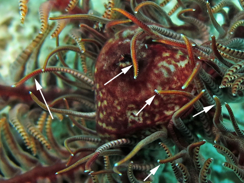 Comatula pectinata at Lizard Island. Arrows show combed pinnules.